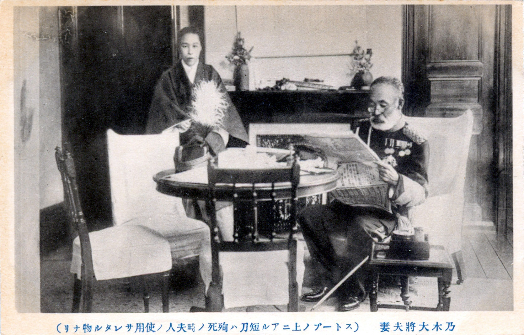 Count Nogi and his wife